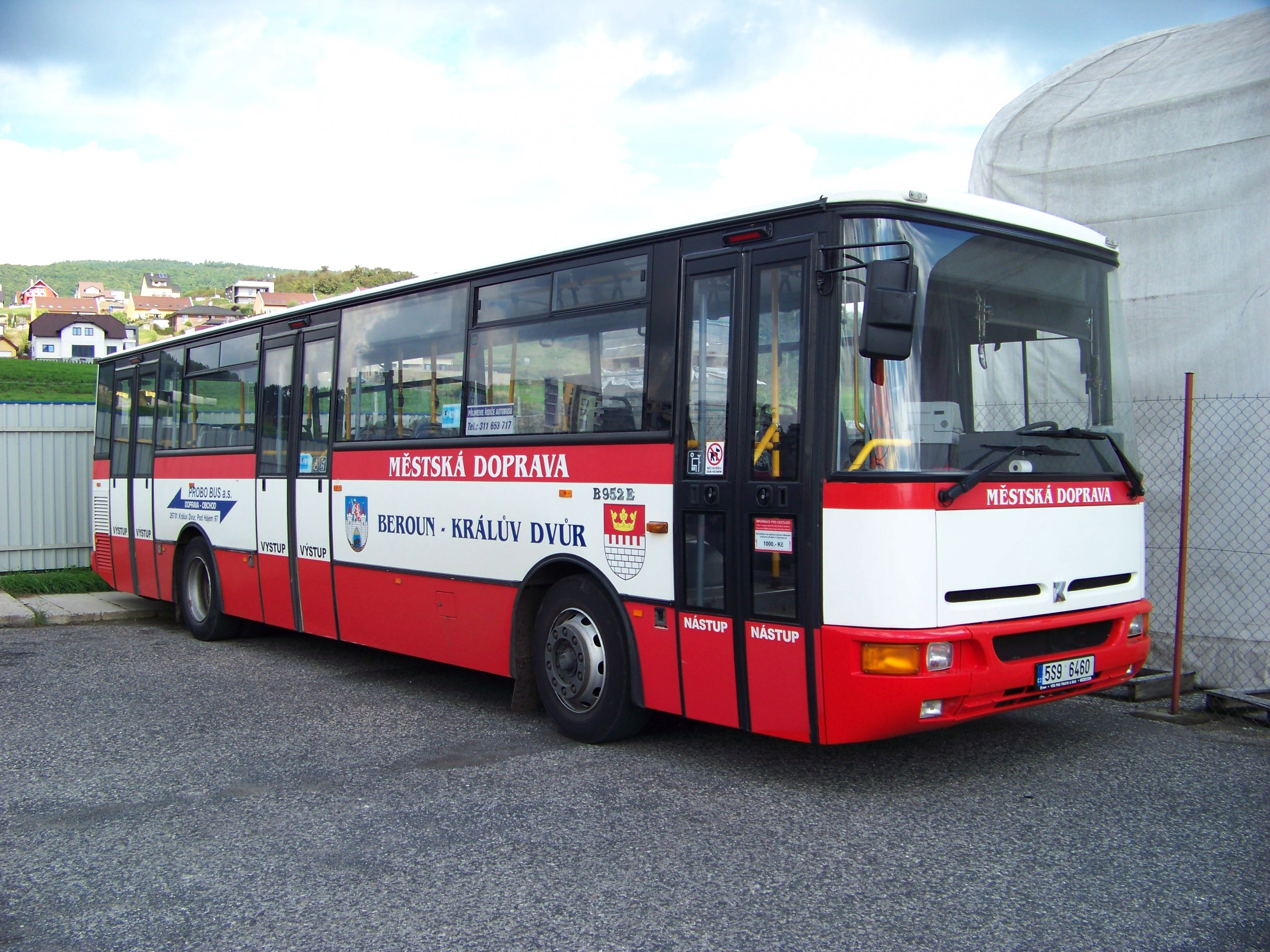 Králův Dvůr, Beroun District, Central Bohemian Region, Czech Republic. Pod Hájem 97, PROBO BUS ground. Open doors day.